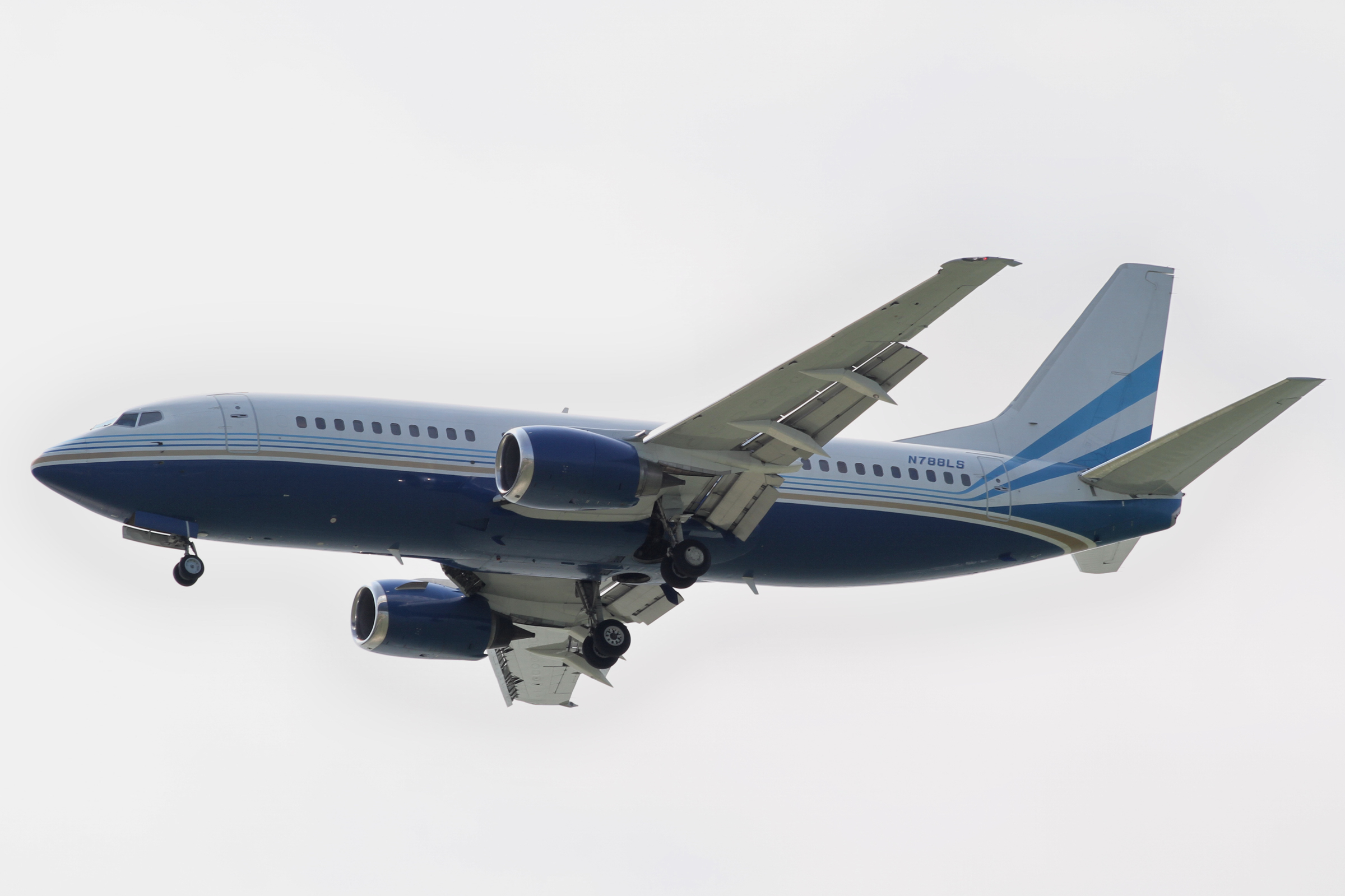 Singapore Changi Airport, Boeing 737-3L9, c/n:24220, Las Vegas Sands Corporation